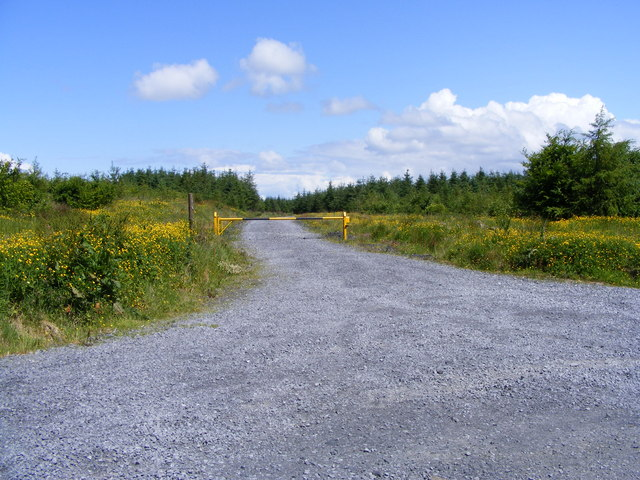 Forestry track - Ballydonohoe Townland